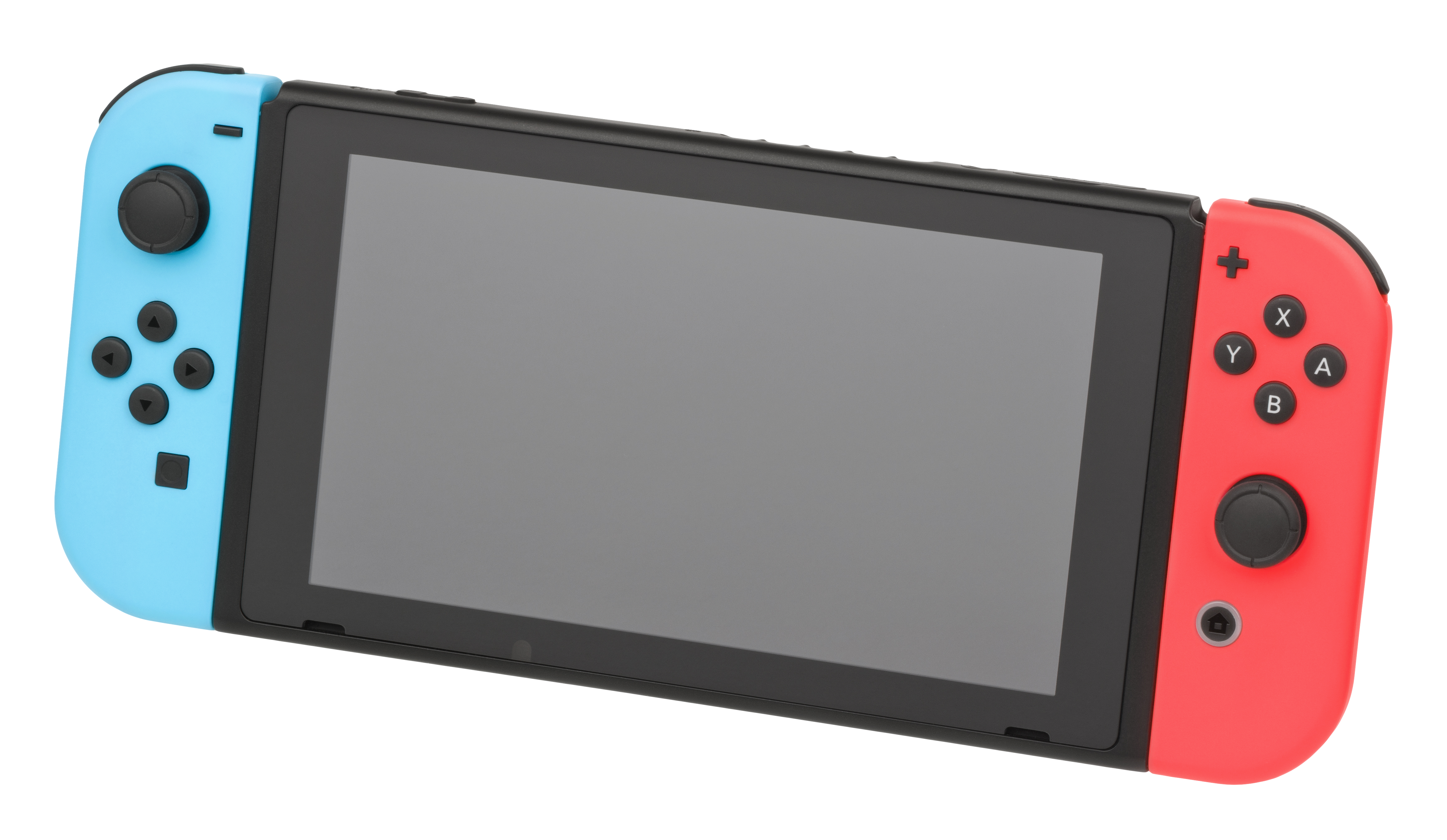 The Nintendo Switch, a hybrid portable/home console released by Nintendo in 2017. It is shown here in the portable mode, with the controllers (neon red & blue) attached to the sides of the main unit.